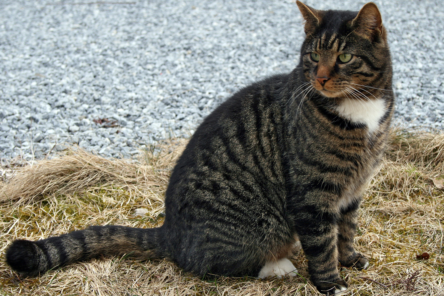 Cat. This is my cat named Harley. He was born April 13th 2003